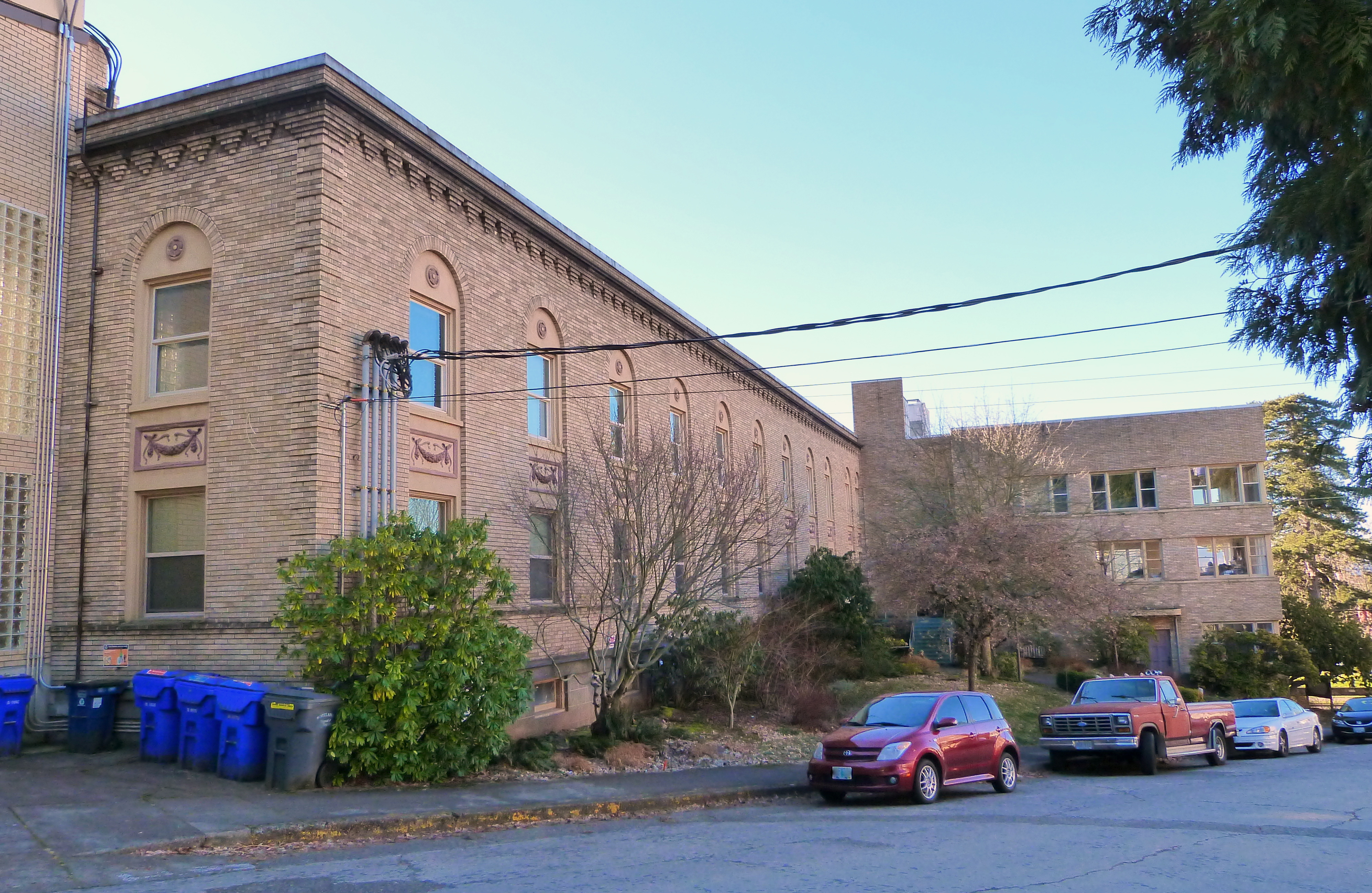 The historic Portland Sanitarium Nurses' Quarters (built 1928, expanded 1946), located at 6012 Southeast Yamhill Street in Portland, Oregon, United States, is listed on the U.S. National Register of Historic Places.